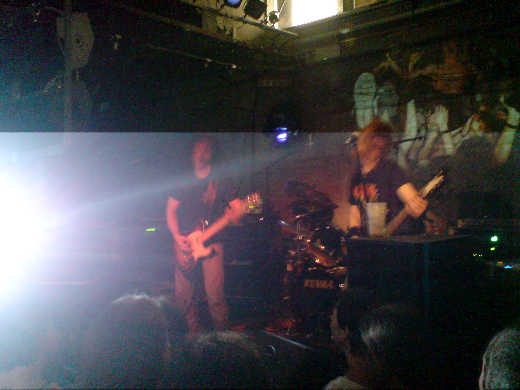 Pungent Stench at Vice Austria Launchparty, 6 June 2007.